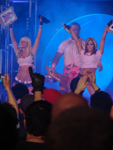 Velvet Sky and Angelina Love making an entrance.